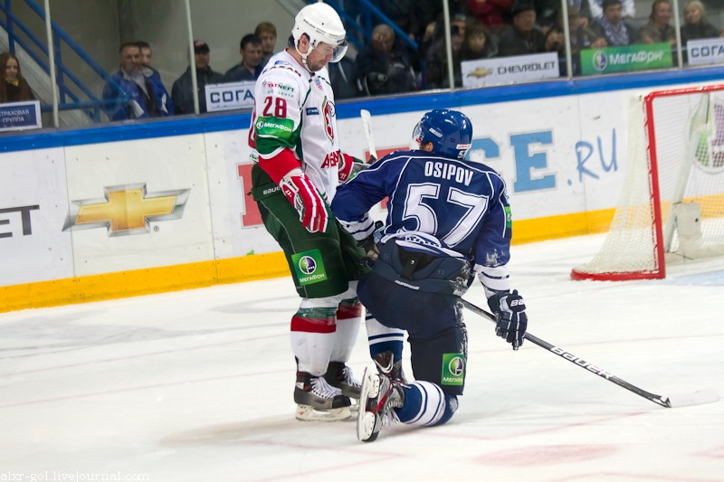 KHL game Amur Khabarovsk vs. Ak Bars Kazan on September 28, 2011. Ak Bars defenceman Denis Kulyash (at left) and Amur defenceman Alexander Osipov.